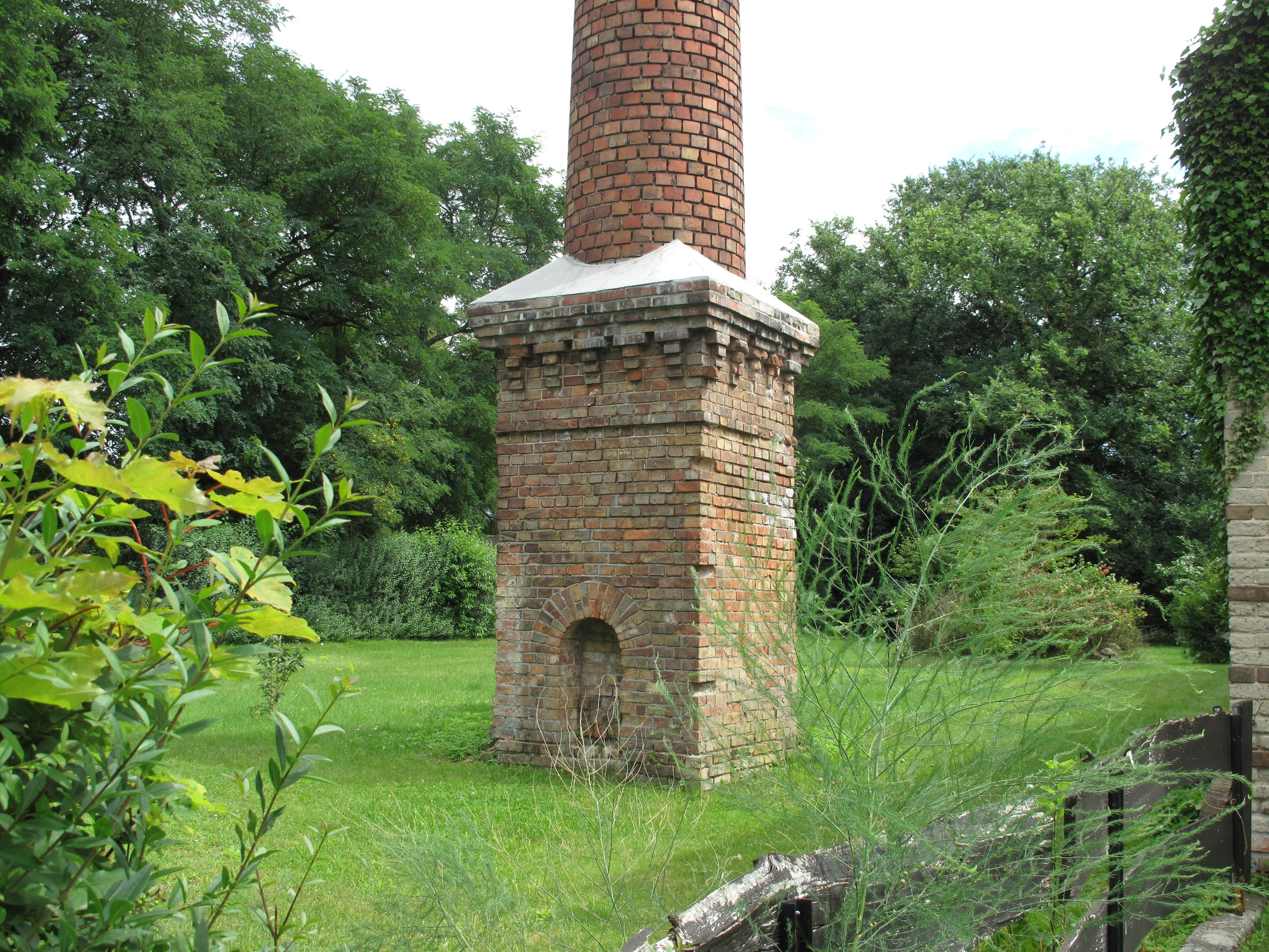 Historical bake oven in Karlsdorf. Karlsdorf is a part of Altfriedland, a village of the municipality Neuhardenberg in the District Märkisch-Oderland, Brandenburg, Germany. Karlsdorf was founded in 1774/75 as colonist village and named after Charles Frederick Albert, Margrave of Brandenburg-Schwedt, landlord in Friedland. The village is especially known for its fishing waters „Karlsdorfer Teiche“.